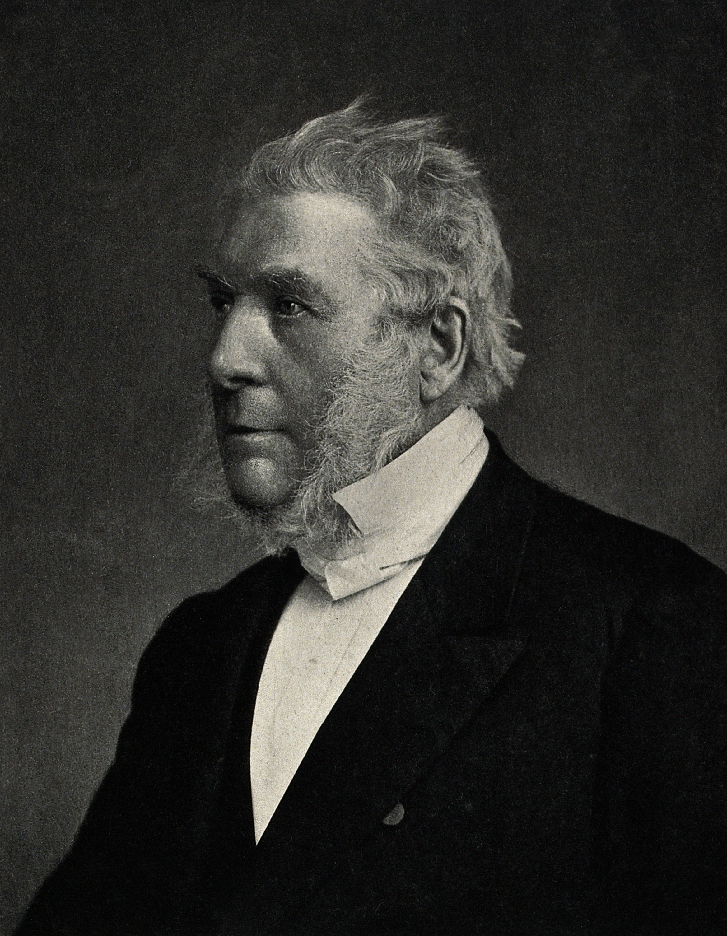 James Glaisher. Photogravure after J. Mayall. Iconographic Collections Keywords: portrait prints